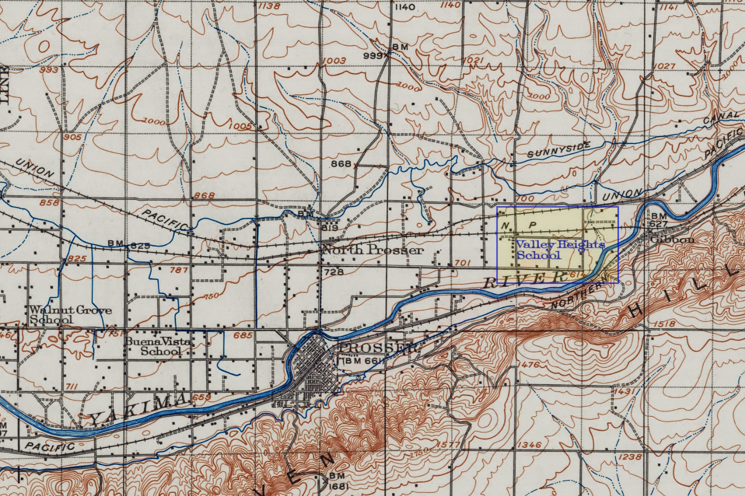 USGS 1:125,000 Topographical Map of Prosser, Washington (portion; modified for clarity to depict Valley Heights community)